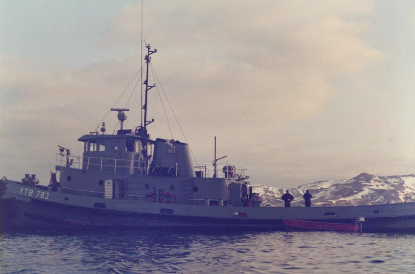 YTB-783 in Atka harbor, Alaska, 1976. Sorry it's poorly cropped, I was only 20 years old when I took it.